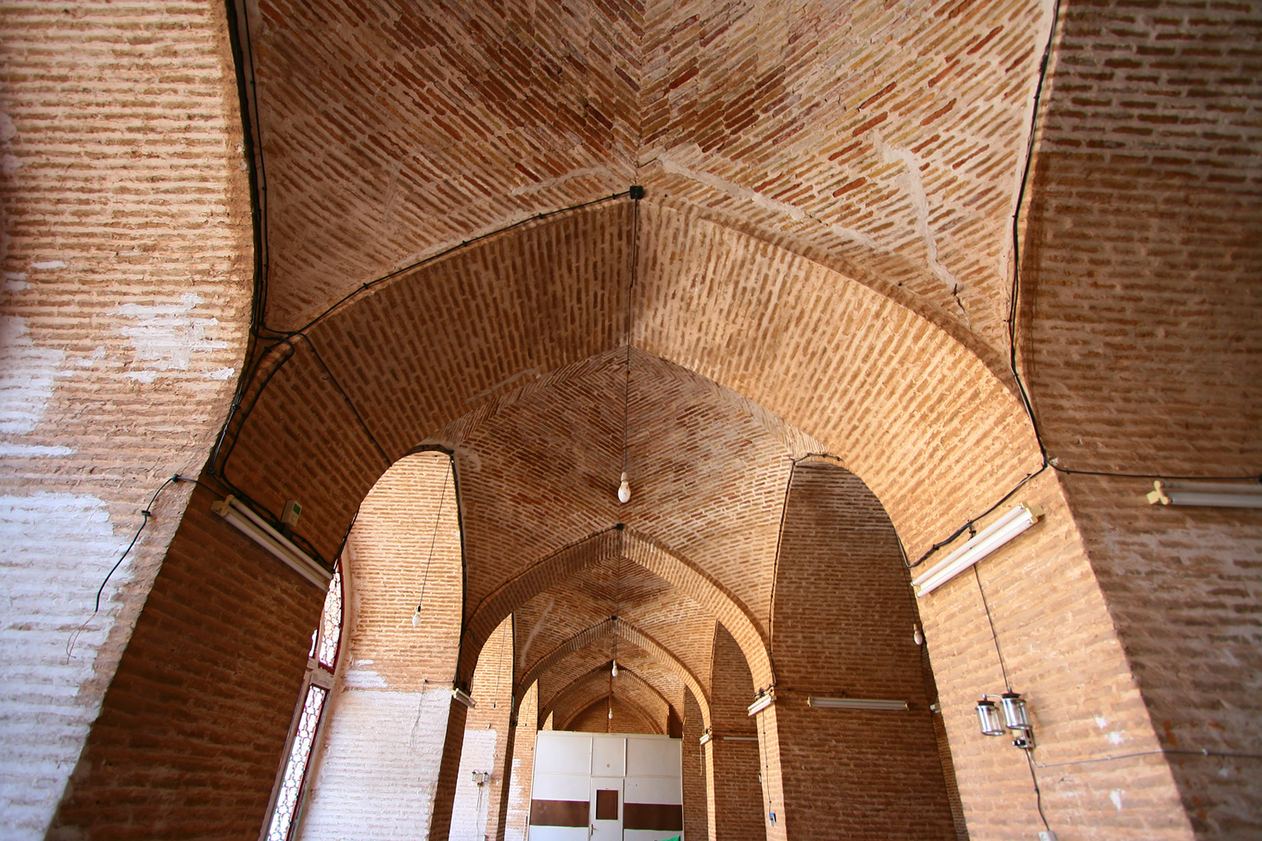 Qom Mosque